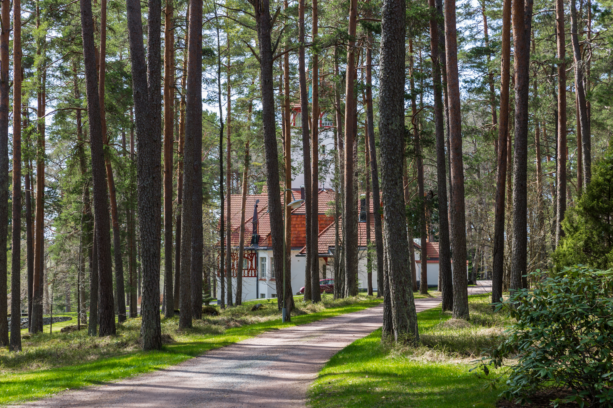 Wood, Villa Mairea